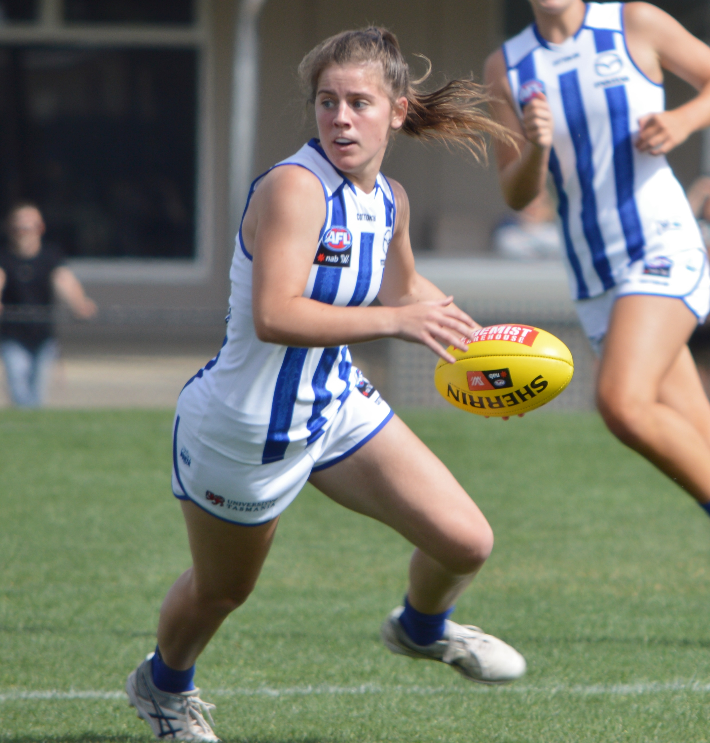 Daisy Bateman North Melbourne during an AFLW practice match against Melbourne at Casey Fields in January 2019.